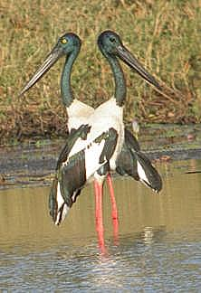 Giru, Central Queensland Coast, October 2003